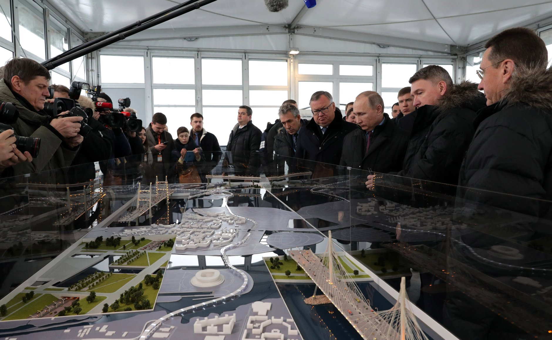 Vladimir Putin attended the opening ceremony of the central section of the Western High-Speed Diameter toll road in St Petersburg.